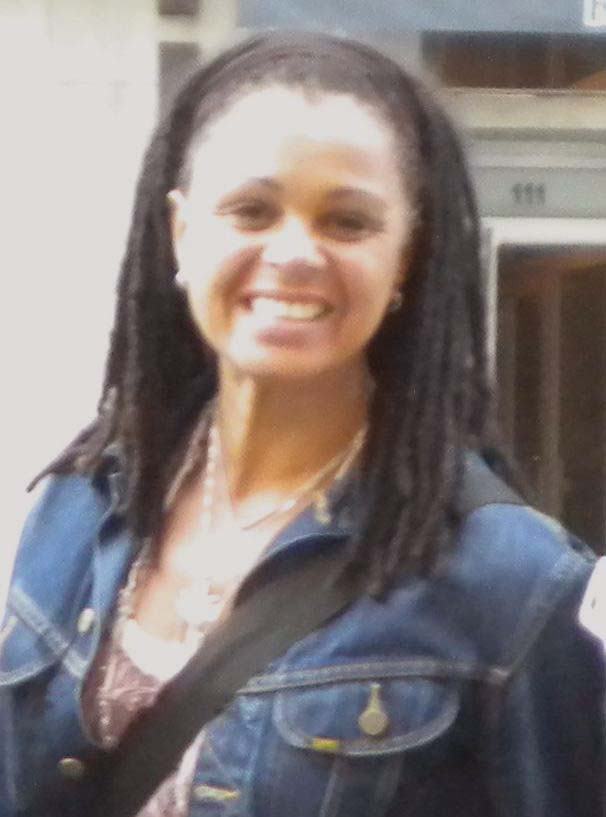 Swedish entertainer Blossom Tainton Lindquist, as released by image creator CabarEng;Place: Åsögatan, Stockholm, Sweden